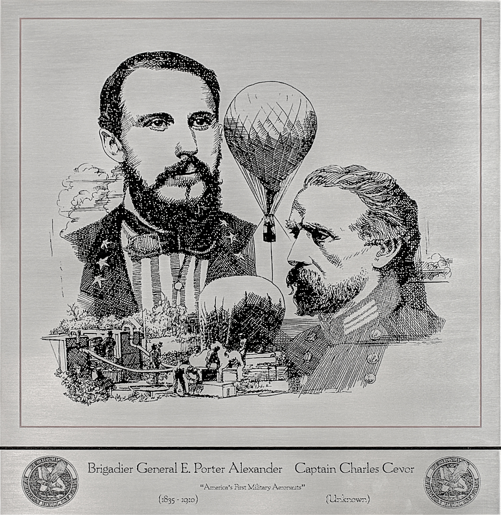 Brigadier General E. Porter Alexander (left); Captain Charles Cevor (right)